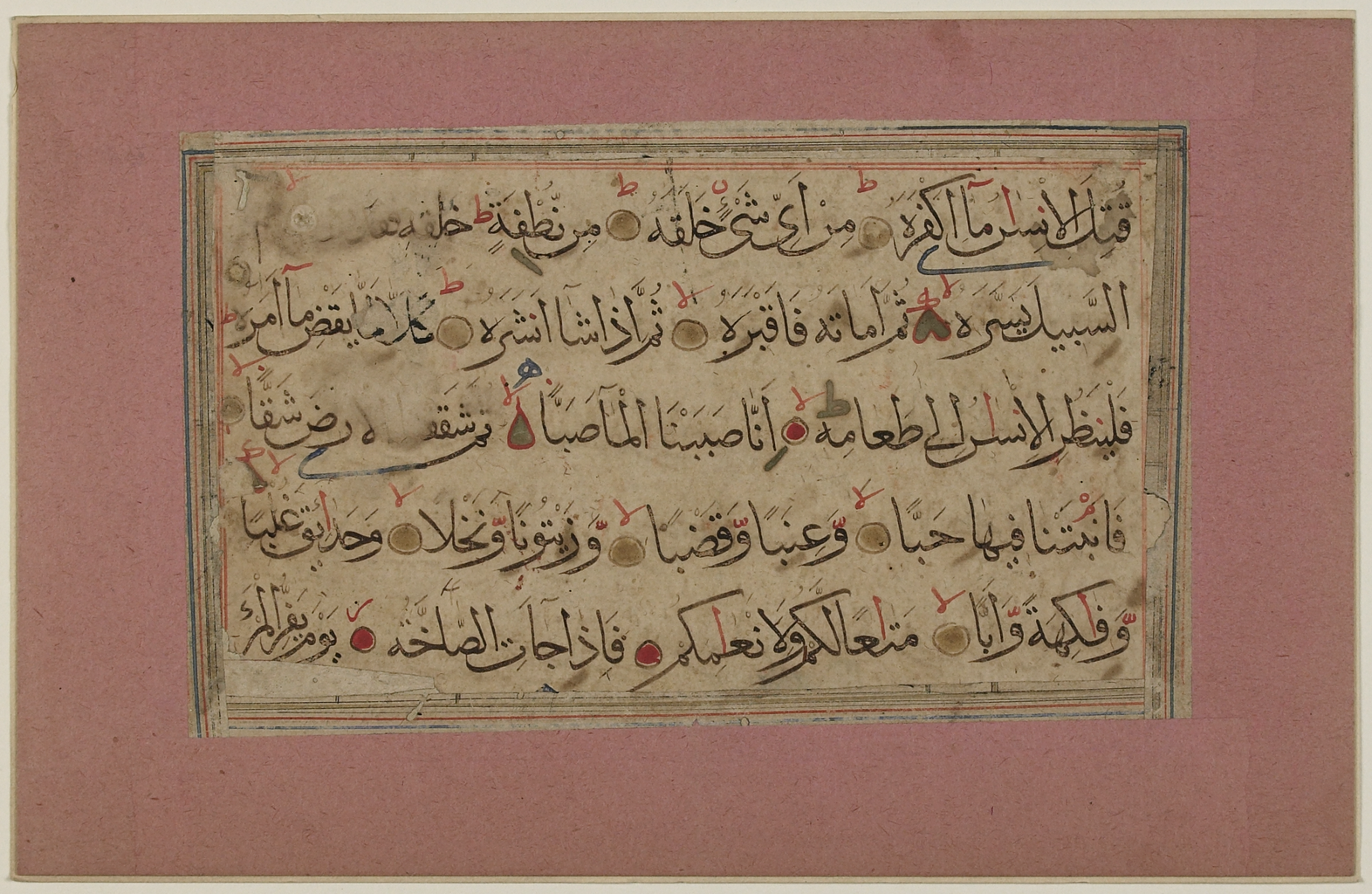 This calligraphic fragment includes verses 17–34 of the 80th chapter of the Qur'an entitled 'Abasa (He frowned). Surat 'Abasa is an early Meccan surah containing 42 verses. It describes an episode during which a blind man interrupted the Prophet while he was attempting to teach. Because the man wanted to learn the Qur'an, the Prophet excused the disruption and held the man in high honor. The verses continue with an exaltation of revelation and the Qur'an: “It is indeed a Message of instruction. / Therefore let whoever will keep it in remembrance. / It is in Books held in honor, / Exalted, kept pure and holy, / Written by the hands of scribes, / Honorable, pious, and just (80:11–16).” These verses are written in a fluid Naskh script in dark-brown ink. Vocalization marks also are executed in brown ink, while orthoepics (pronunciation) marks—such as the tashdid (duplication of a consonant) and long alif ("a") sounds—appear in red ink. Verse markers consist of small gold and red circles or drops. Notations in red ink indicating whether stopping recitation is allowed or not appear above the ayat (verse markers) as well. The panel of calligraphy was extracted from a Qur'an, provided with colored frames, and pasted onto a pink board for strengthening. Arabic calligraphy; Arabic manuscripts; Illuminations; Islamic calligraphy; Islamic manuscripts; Koran